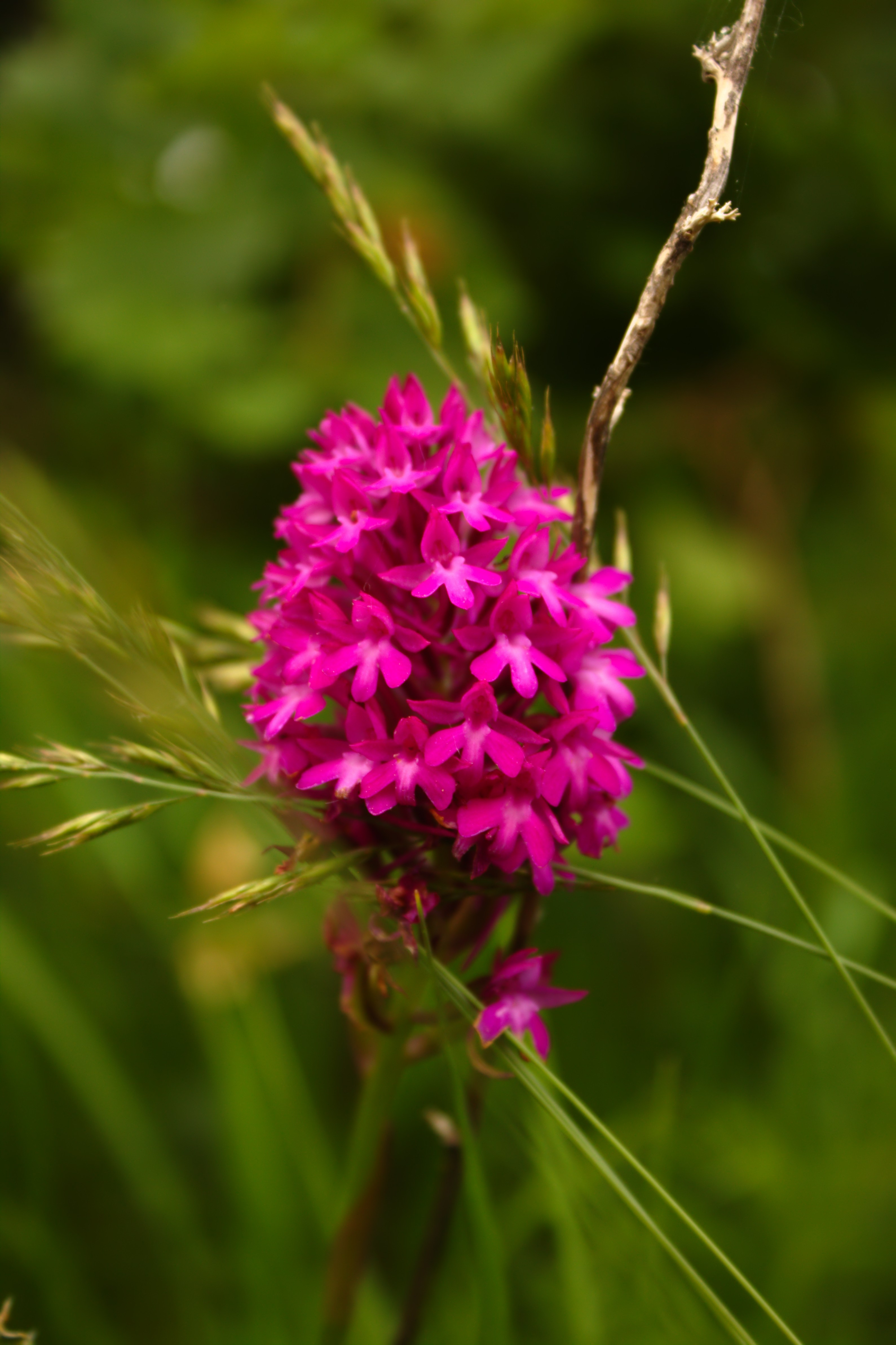 A flower on a meadow at the northern edge of the Fruška Gora National park in Serbia, here near the town of Sremska Kamenica